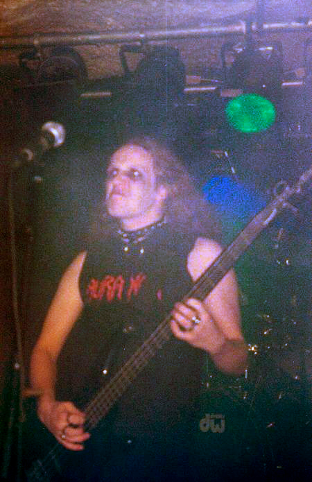 Apollyon live with Aura Noir, 2001